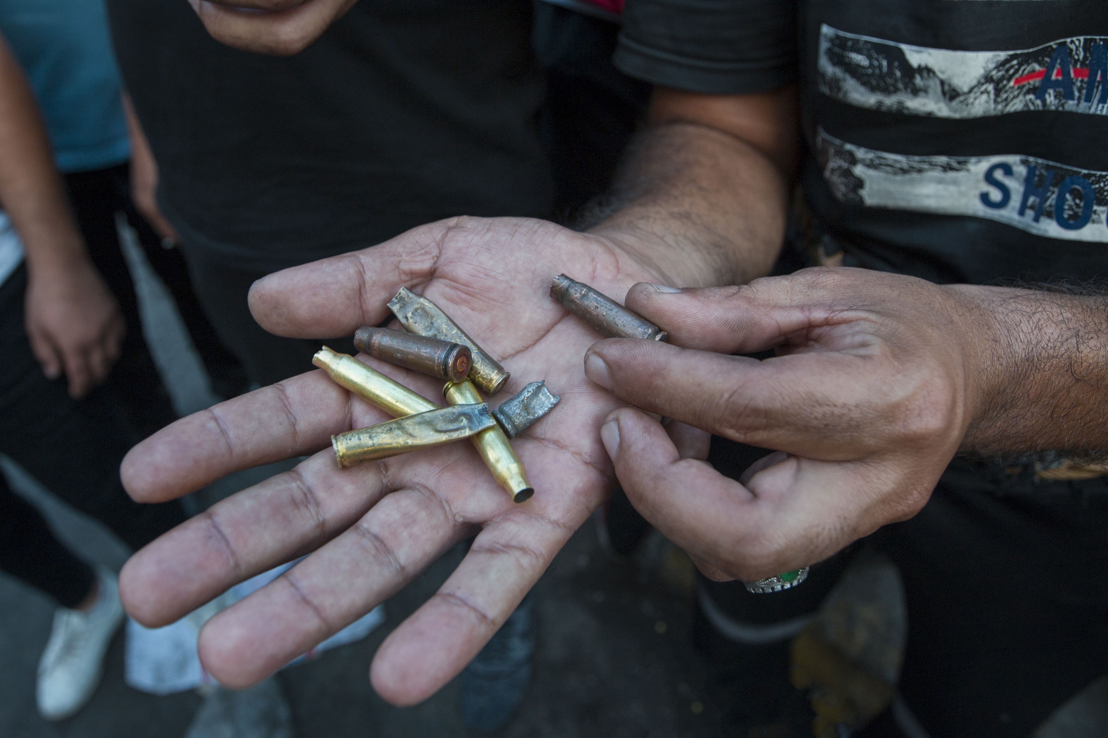 Photo documenting live bullets fired by riot police towards defenseless demonstrators in the October demonstrations - Photo by Mustafa Nader